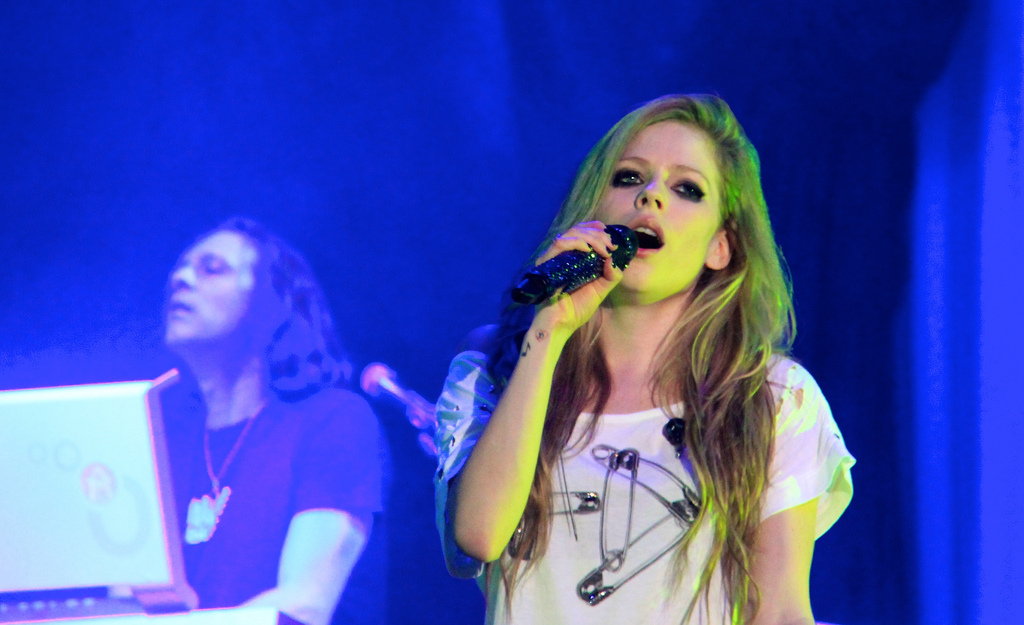 Taken at the Singapore Indoor Stadium during Avril Lavigne's Black Star Tour.